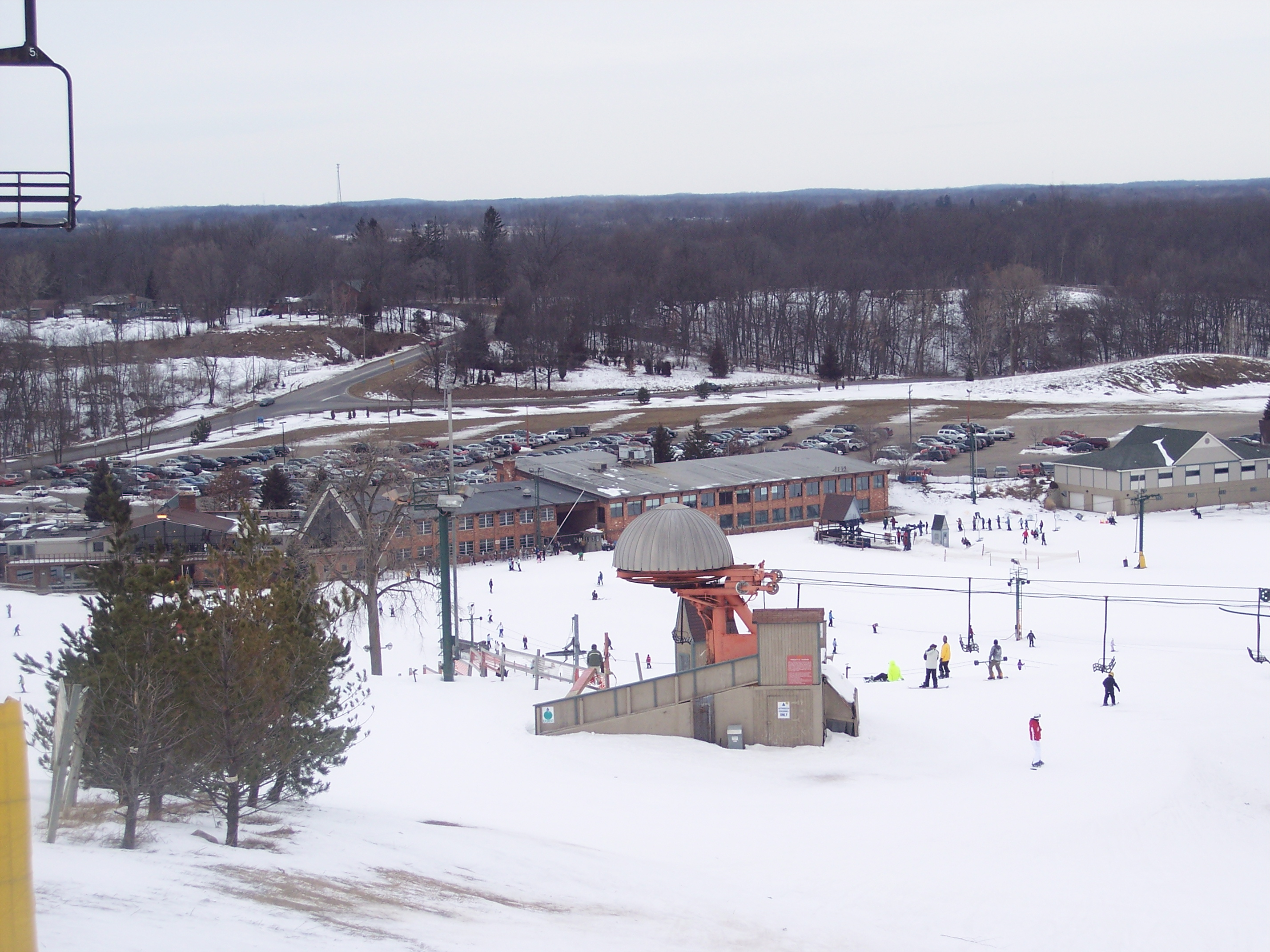 Mt. Brighton Ski Hill, Mt. Brighton, MI.